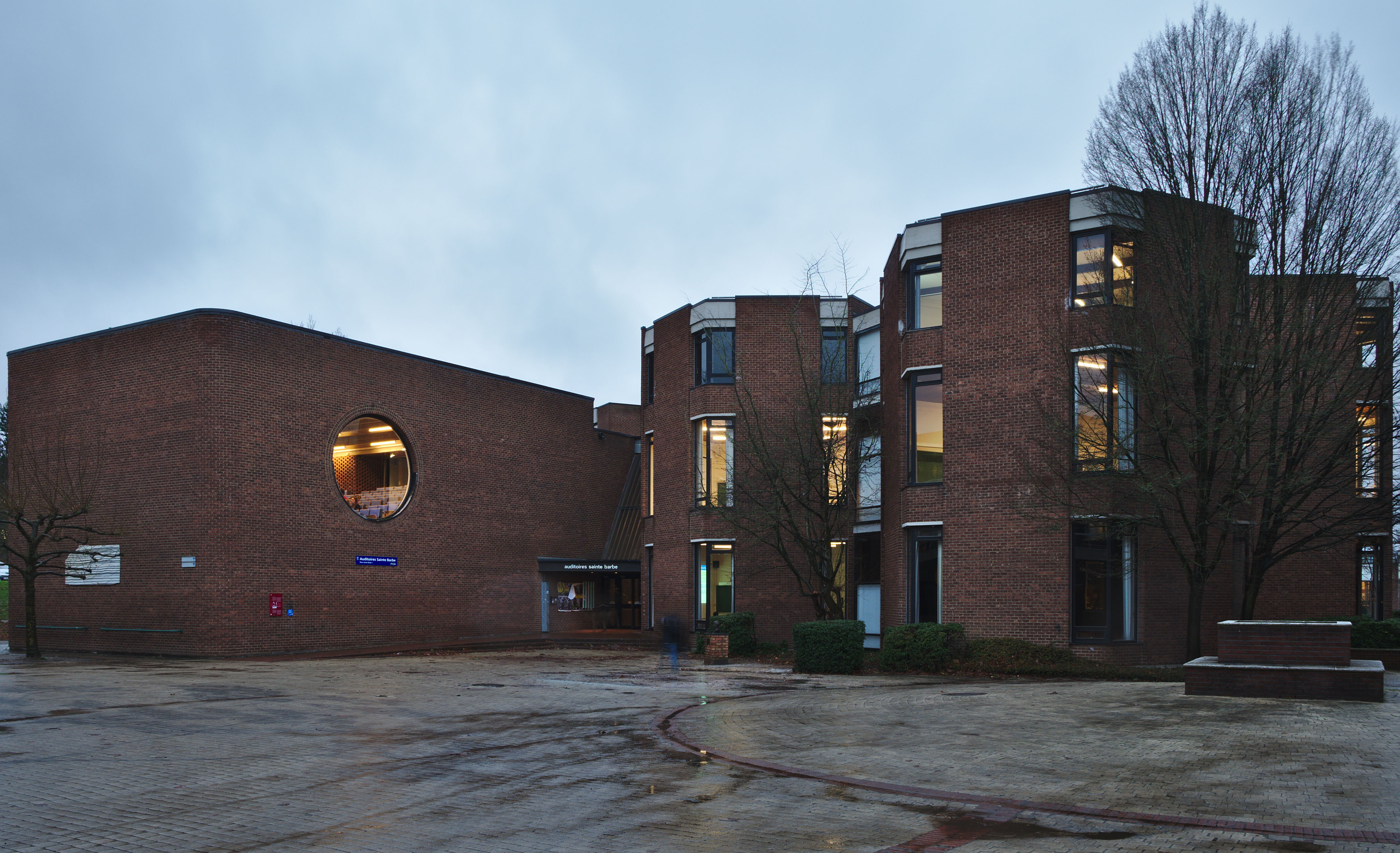 Autitoires Sainte-Barbe photographed from the Vinci building on a drizzly evening in December (Ecole Polytechnique de Louvain, Ottignies-Louvain-la-Neuve, Belgium)